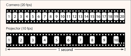 Created by wikipedia editor using Illustrator. I created this and I release it to the public domain. Plowboylifestyle 05:16, 13 November 2005 (UTC)